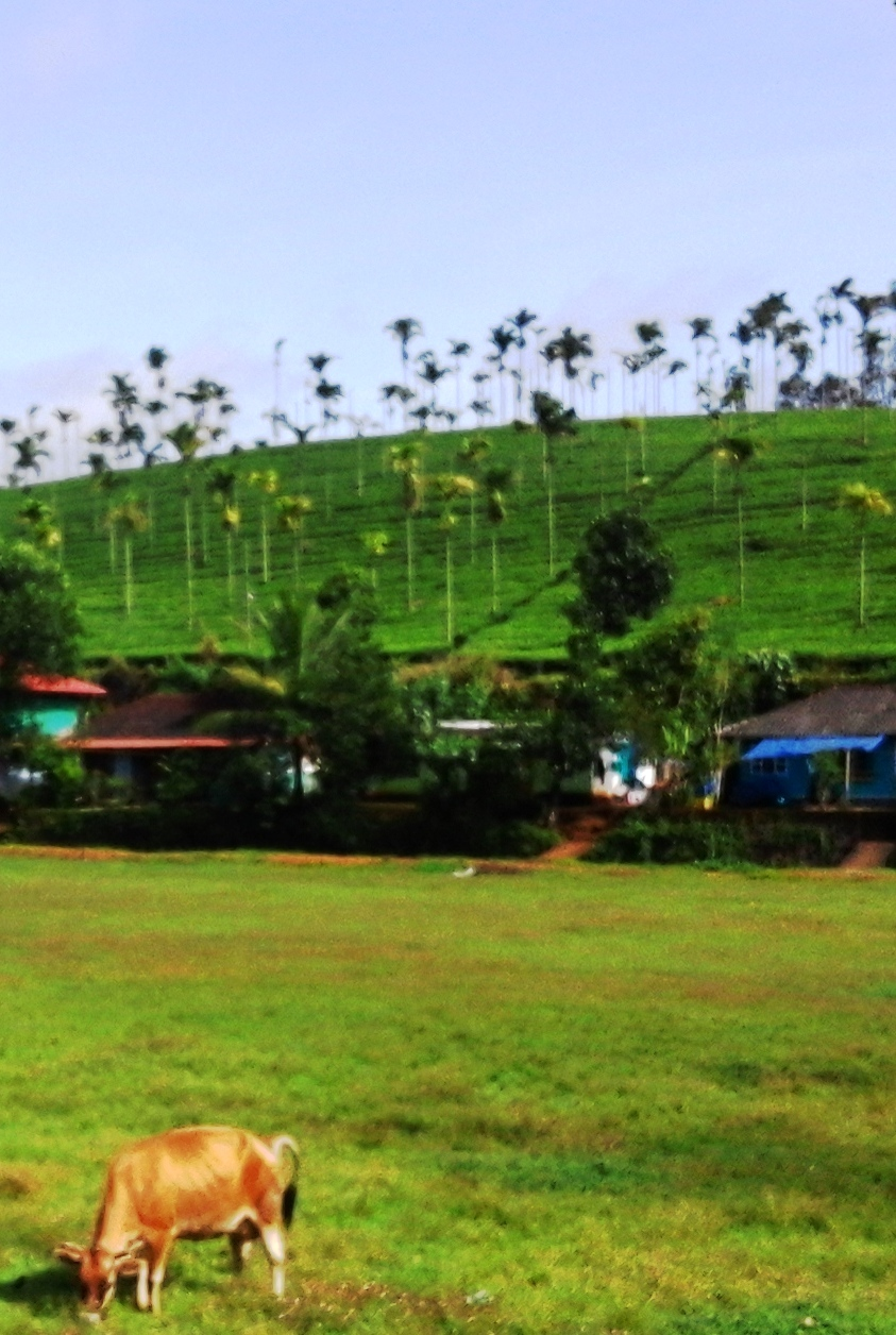 Chundale, Vythiri, Wayanad, Kerala, India.